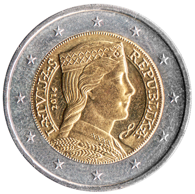 Latvian euro coin featuring Latvian maiden in stylized folk costume - a National personification and symbol of freedom first featured on en:5 lats coin issued in 1929